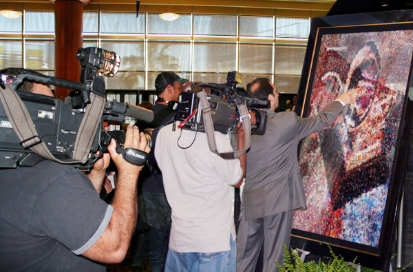 Grammy 50th poster unveiling